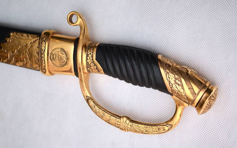 Honor weapon with golden image of the State Emblem of the USSR 4